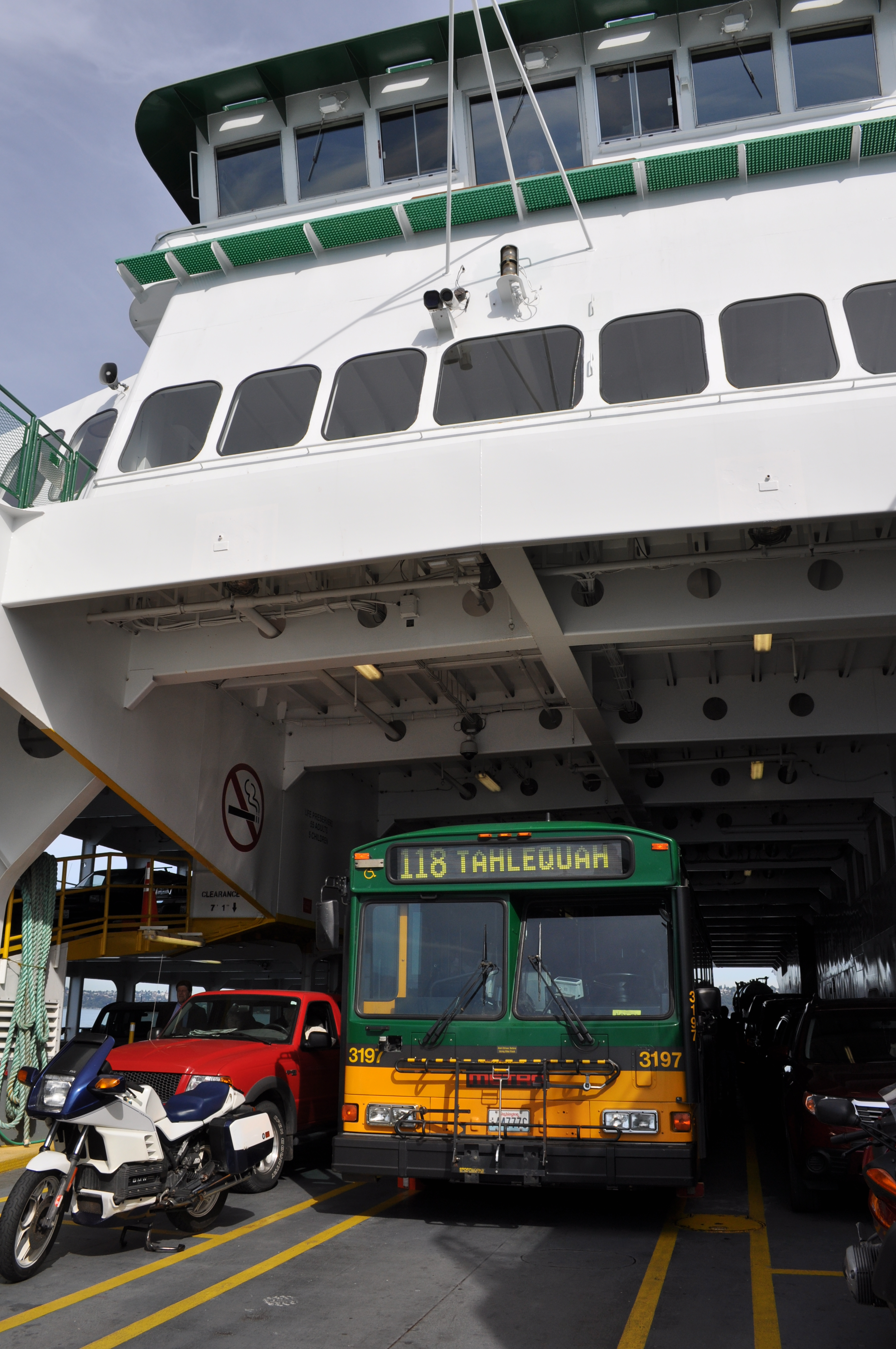 METRO bus aboard the Washington State Ferry from Fauntleroy in Seattle to the north dock of Vashon Island. Issaquah-class ferry, either the Issaquah or the Kitsap.